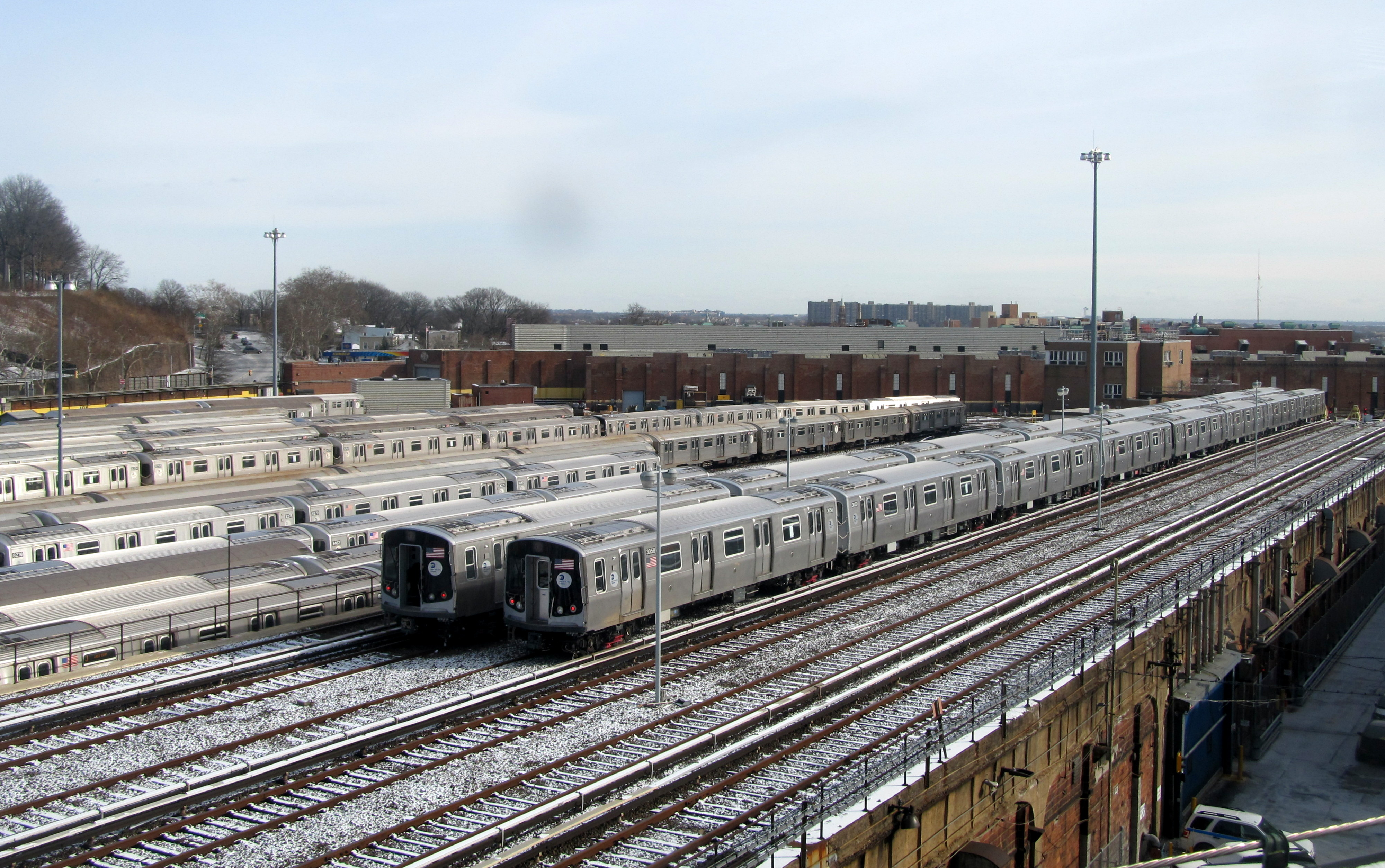 East New York Yard viewed from Broadway Junction station in December 2017